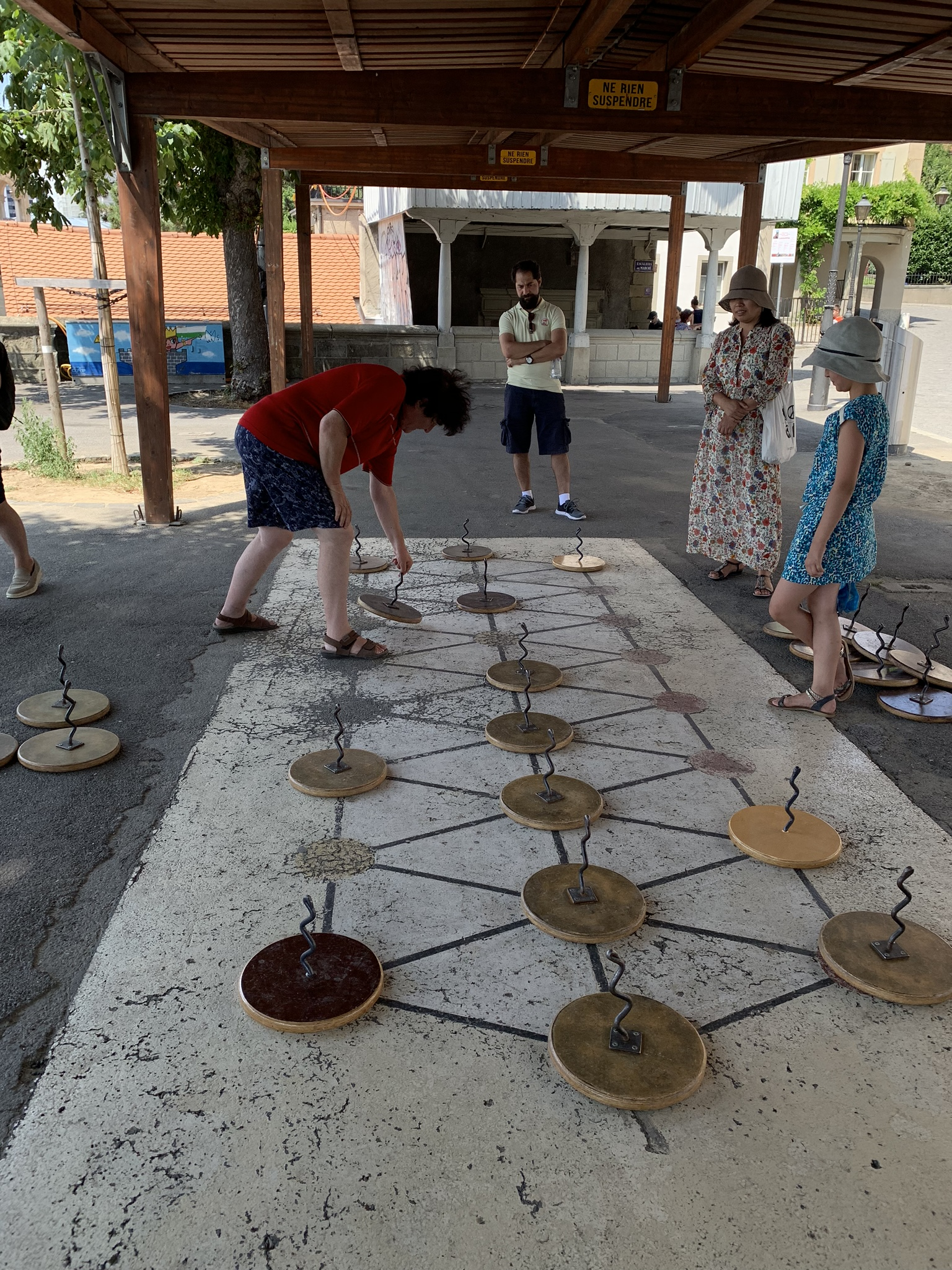 Huge board of this traditional Mexican game